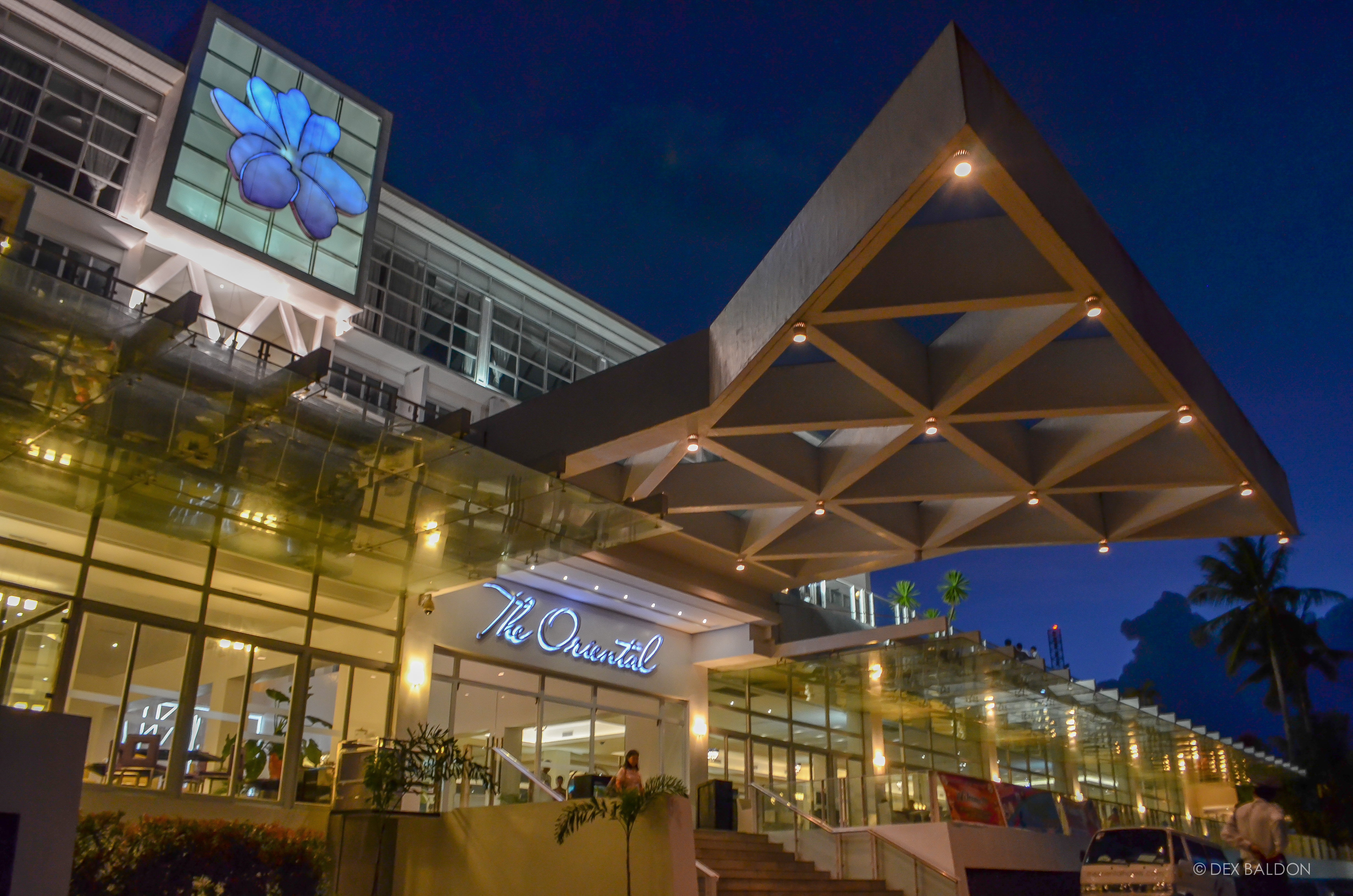 The Oriental Legazpi in Legazpi City, Albay, Philippines